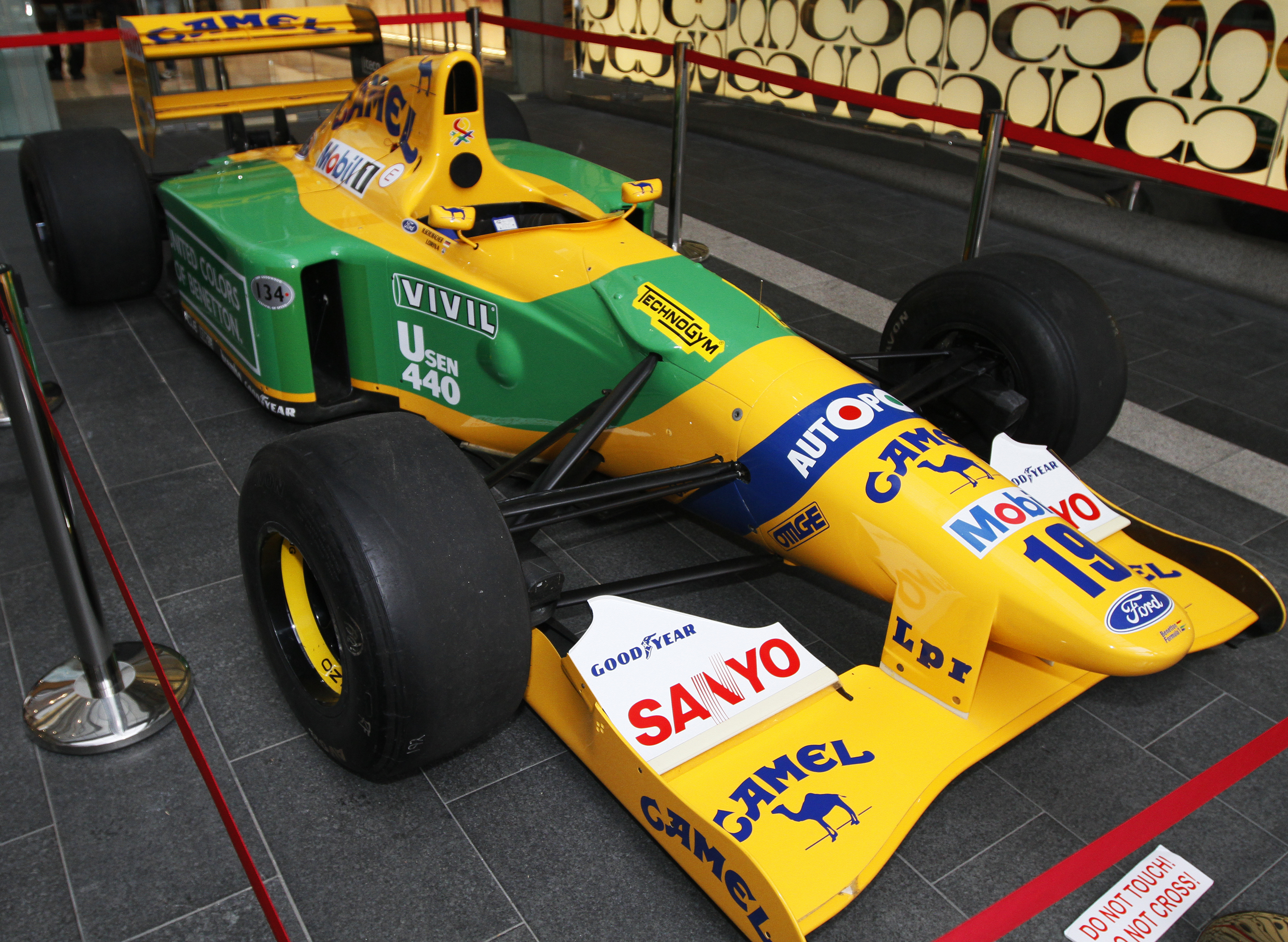 Pavilion Pit Stop 2010: Benetton B192 (Michael Schumacher's car)